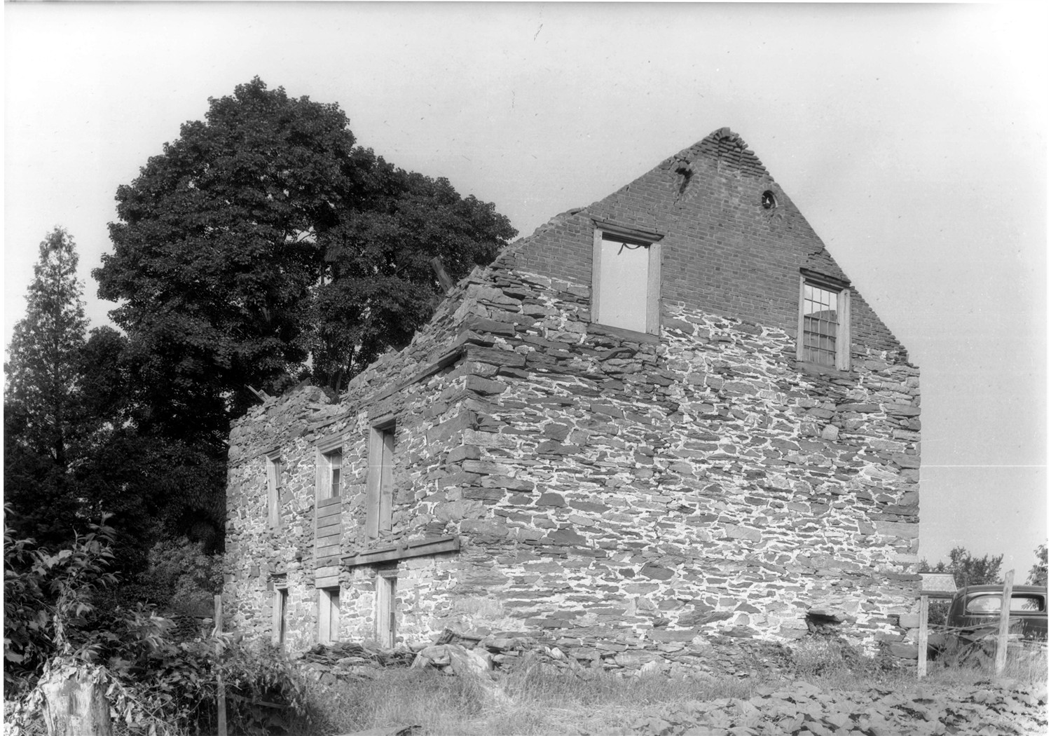 From the Library of Congress. Rowe Estate, 1766 House.